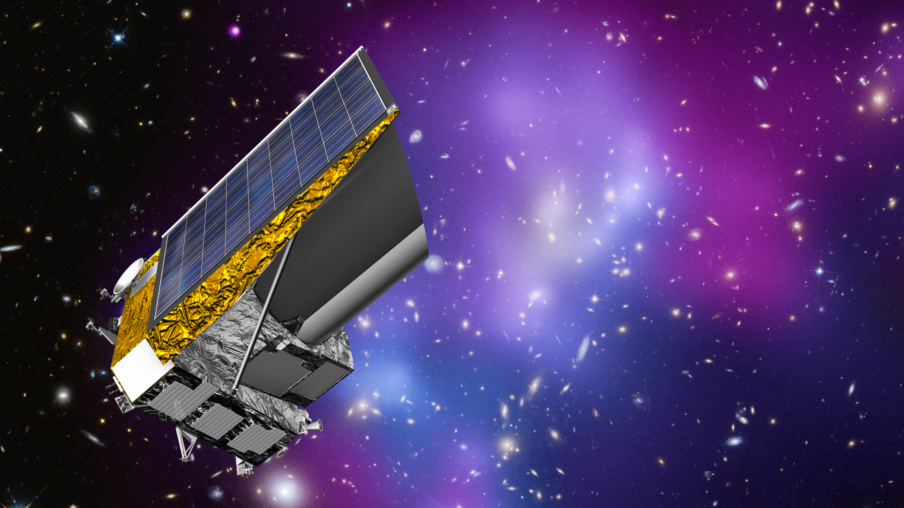 Euclid is an ESA mission to map the geometry of the dark Universe. Euclid will investigate the distance-redshift relationship and the evolution of cosmic structures. It achieves this by measuring shapes and redshifts of galaxies and clusters of galaxies out to redshifts ~2, or equivalently to a look-back time of 10 billion years. It will therefore cover the entire period over which dark energy played a significant role in accelerating the expansion. The Euclid spacecraft will have a launch mass of around 2100 kg. It will be about 4.5 metres tall and 3.1 metres in 'diameter' (with appendages stowed). The nominal mission lifetime is six years.